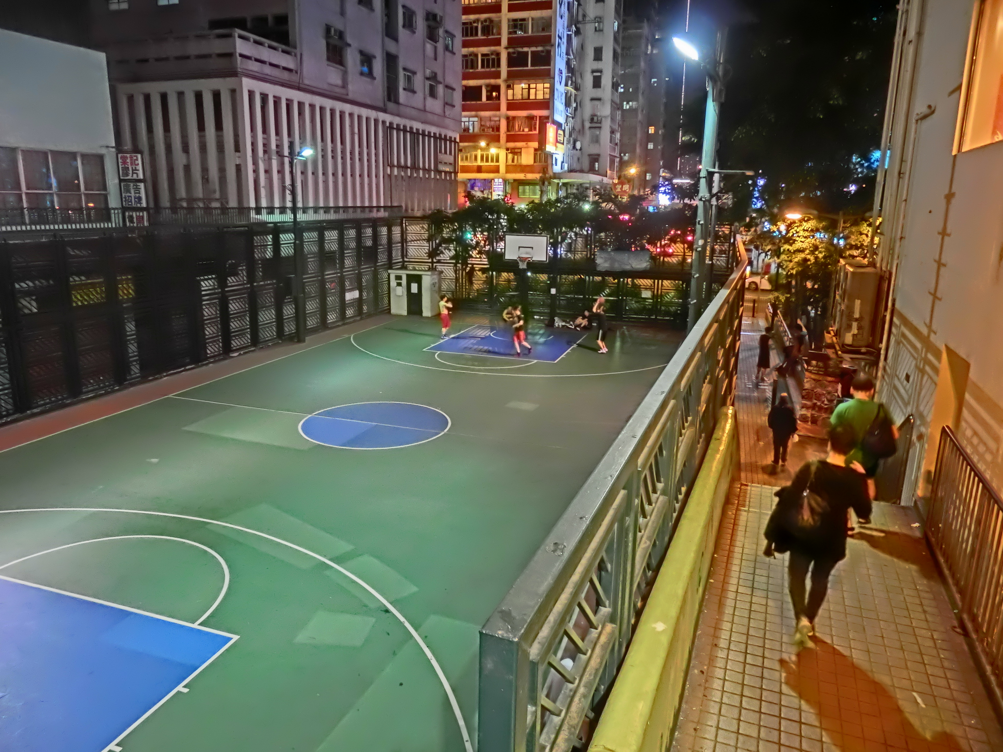 灣仔道, Basketball court, Wan Chai Road, Wan Chai, Hong Kong